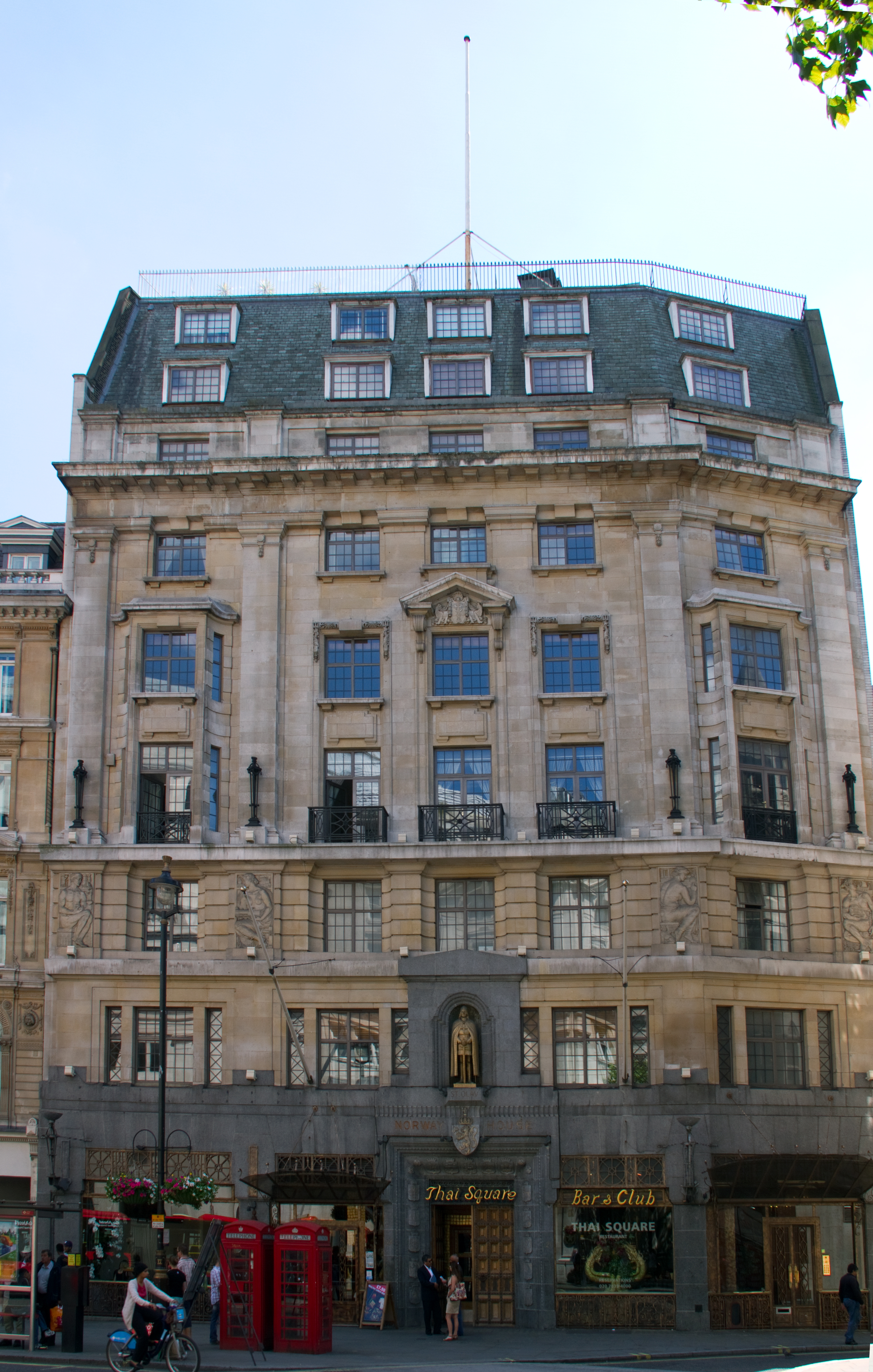 Norway House